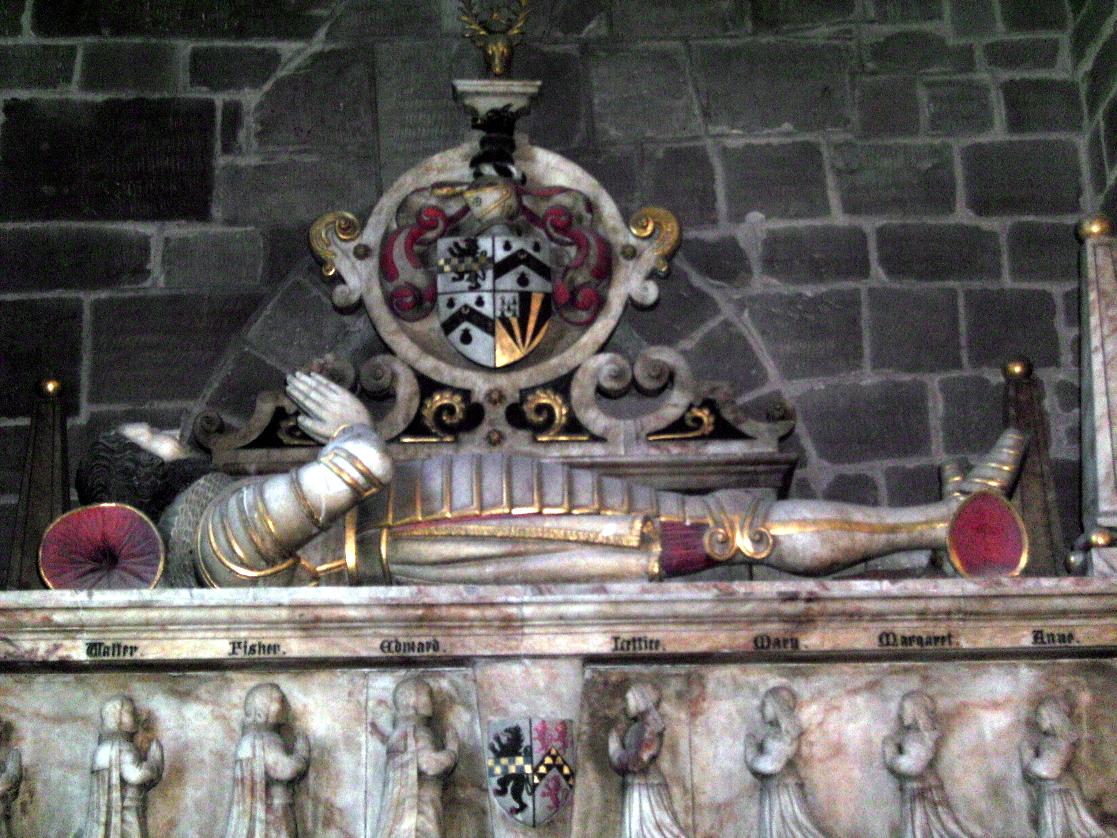 St Michael's church, Penkridge, Staffordshire. Upper tier of a double tomb on east wall of north chancel aisle. Effigy of Sir Edward Littleton (d. 1629).